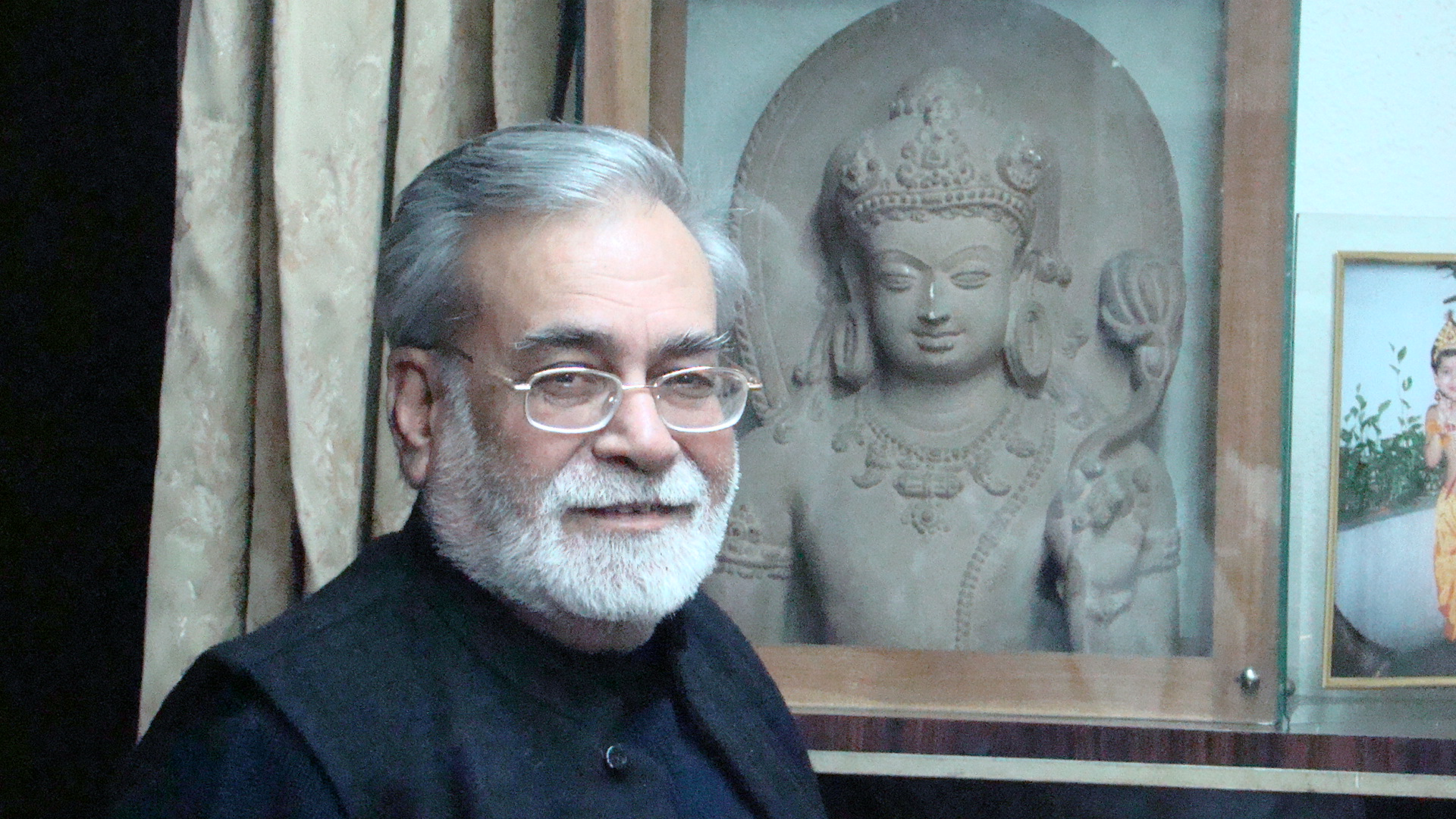 Noted writer and philosopher Dr. Narendra Kohli at his residence in New Delhi, India.